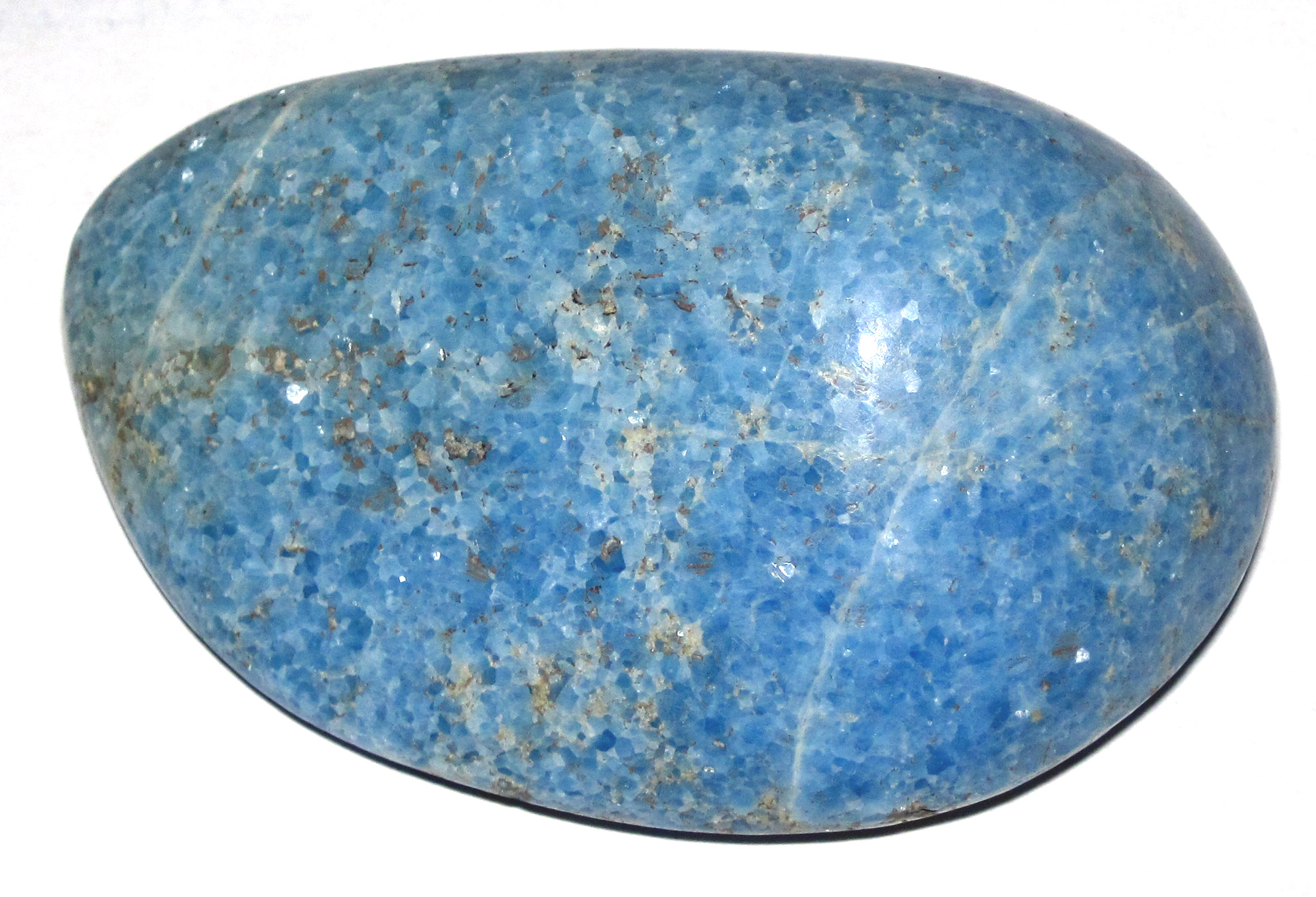 Blue diopsidite skarn (tumble-polished specimen) from the Neoproterozoic of the Dovyren Highlands, eastern Siberia, Russia. Skarn is a coarsely-crystalline, contact metamorphic rock. The attractive rock shown here is a rare variety of skarn dominated by bluish-colored diopside pyroxene (“violane” or “violan”) ((Ca,Mg,Fe)₂Si₂O₆). Such rocks are called diopsidite skarn. Geologic origin & context & age: magnesium skarn formed by metamorphism of dolostone xenoliths by a gabbro-peridotite layered intrusion, Yoko-Dovyrensky Massif, Neoproterozoic, ~700 Ma. Locality: Dovyren Highlands, Buryatia Republic, Transbaikalia, eastern Siberia, Russia.